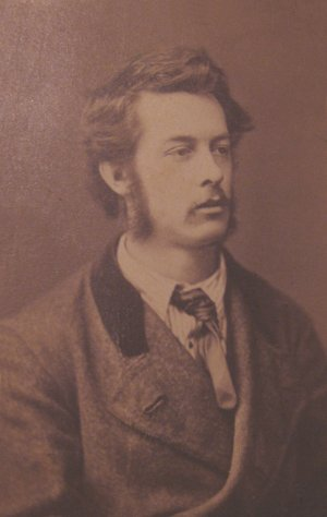 Photo of artist William Edward Frank Britten